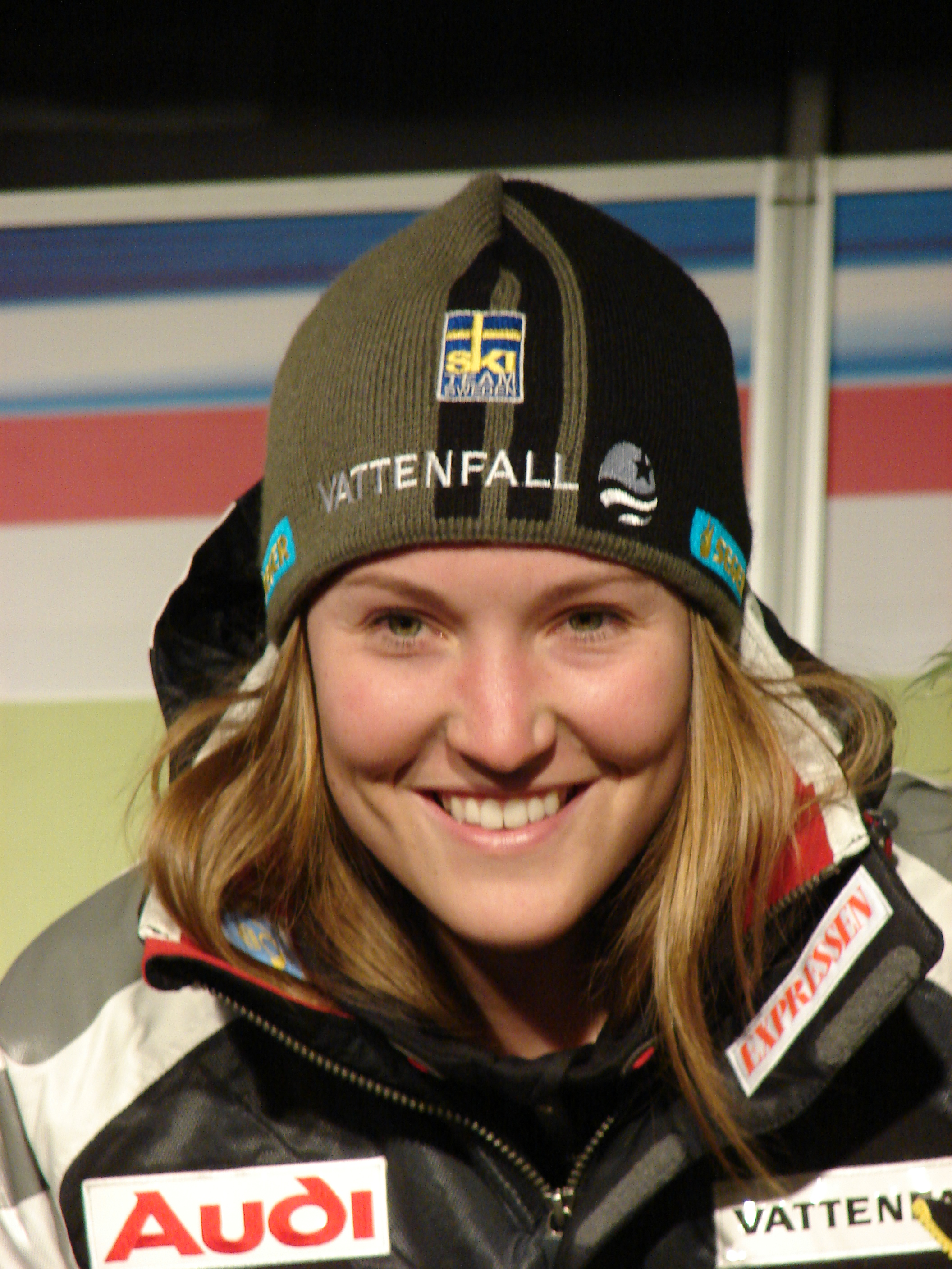 Therese Borssen during the public draw for the Slalom in Semmering, Austria on Dec. 29, 2006.